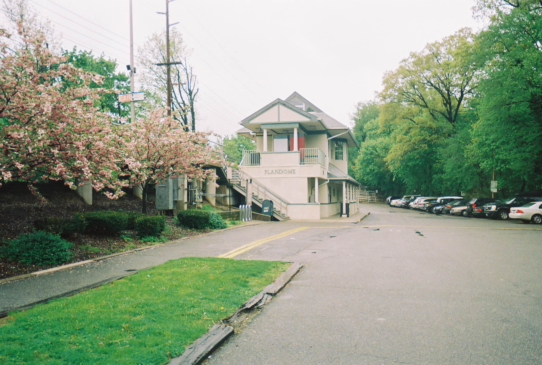 Plandome (LIRR station) which doubles as the Plandome Post Office as seen from the parking lot on a rainy spring day in Plandome, New York.